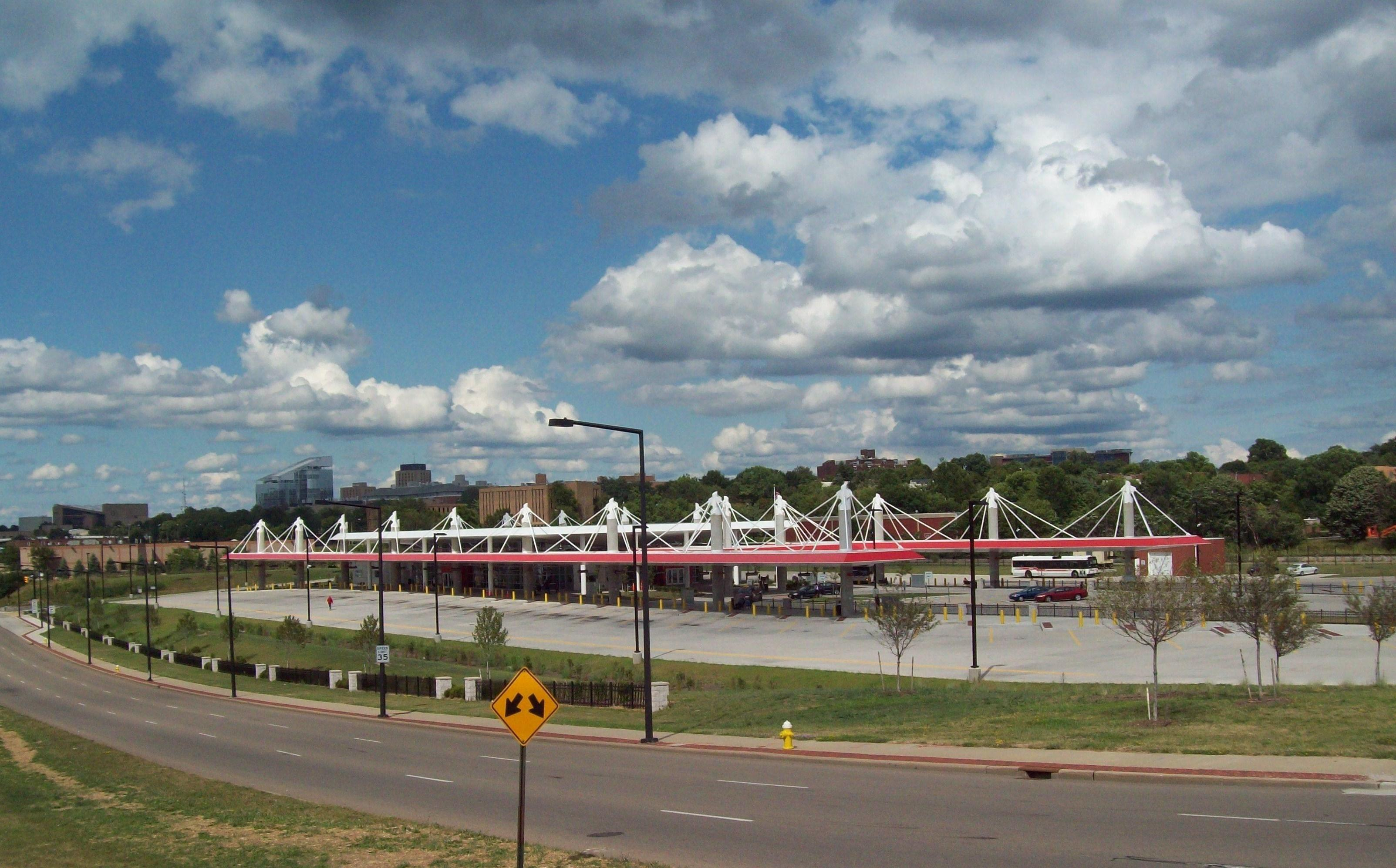 Akron Intermodal Transit Center, Akron, Ohio